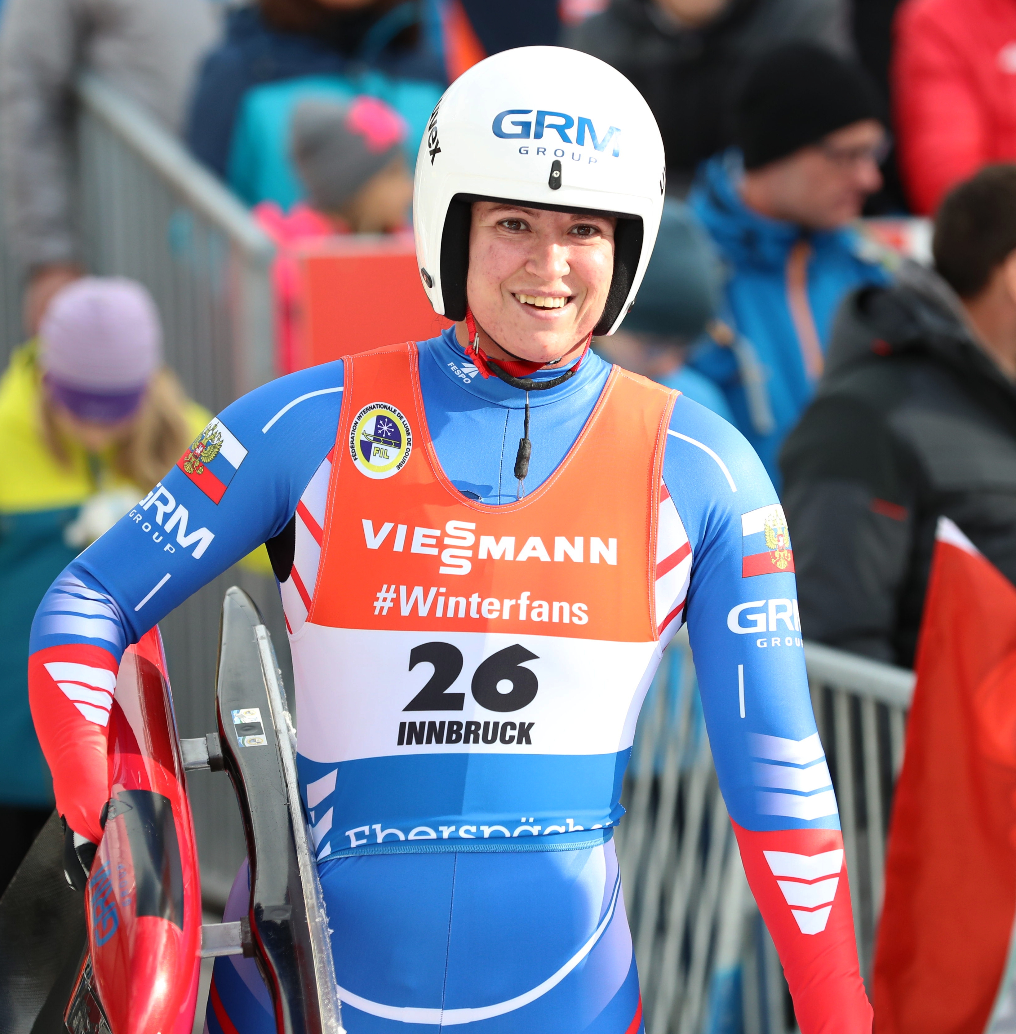 Women's World Cup race at the 2018/19 Luge World Cup in Innsbruck-Igls